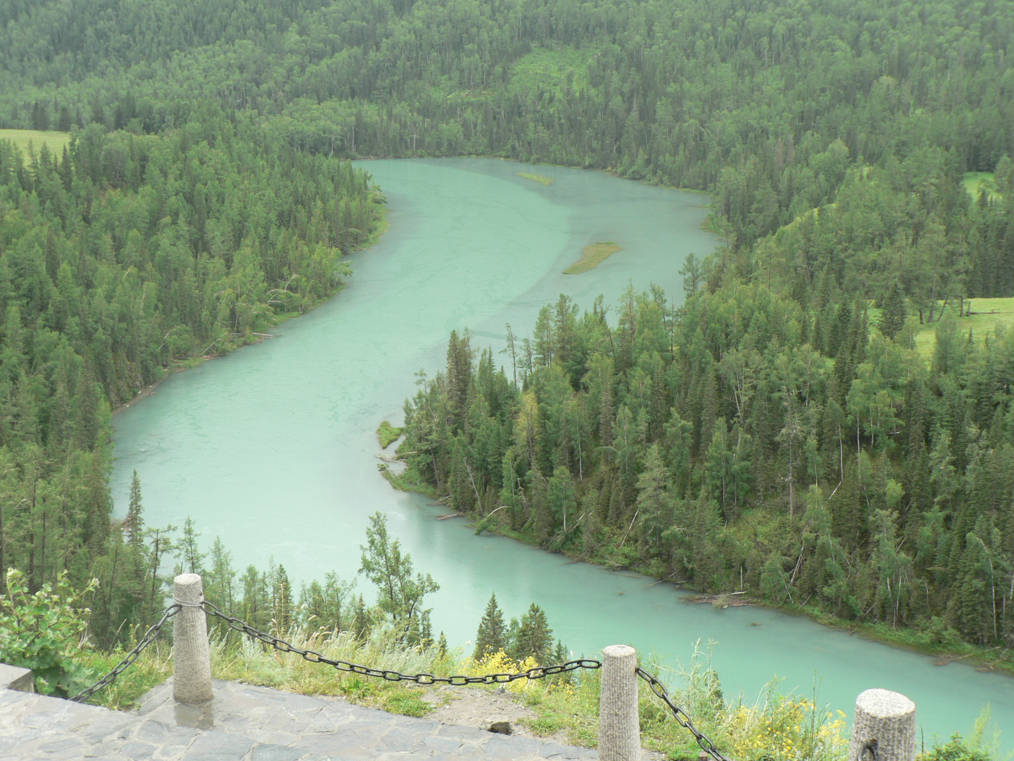 The Moon Bay in Xinjiang, China, near Kanas Lake